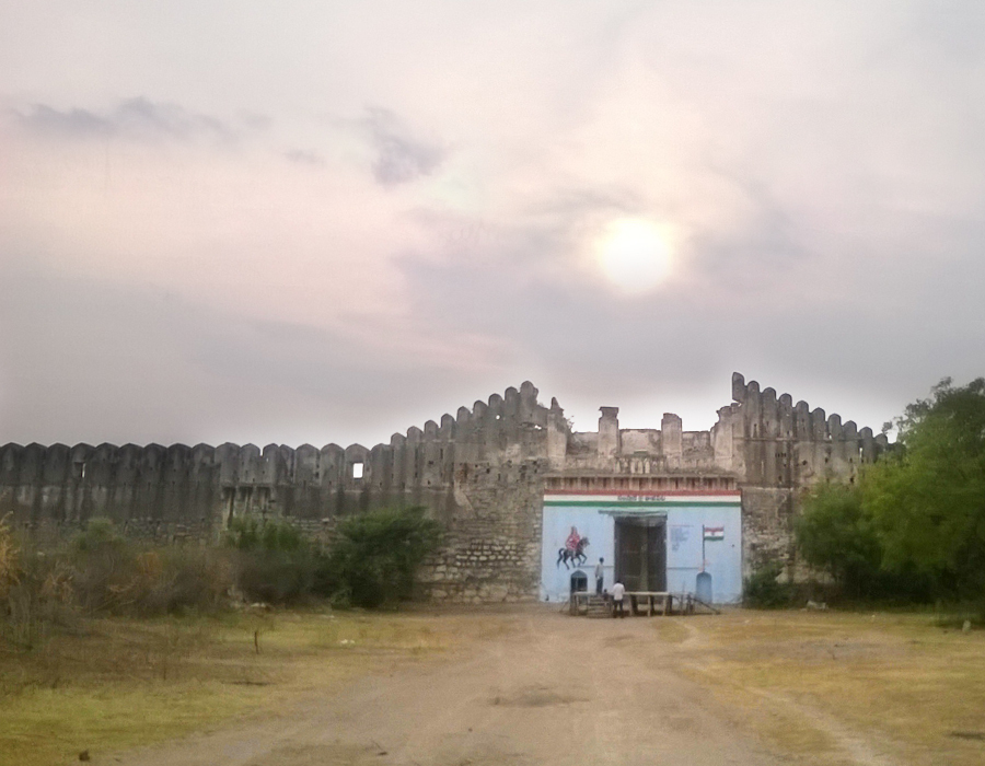 Rajapet is a historic location, popularly known as Samsthan Rajapeta. This upcoming town has one of the popular fort of Telangana State in India located in Nalgonda district.There is a Fort at Rajapeta Samsthan which is having History of 250 years, the Fort is combination of Glass buildings, Internal Roads, Gardens and Huge Walls called as BURJ. The Fort turned as Gadi after so many decades. The Fort was built by King called RAJA RAYANNA in the year 1775 during Kakatiya Dynasty and the kingdom called RAJA RAYANNA PETA, over the period the name converted to RAJAPETA. The historical structure of the fort which was surrounded by huge wall showcases the royal senses and security system.